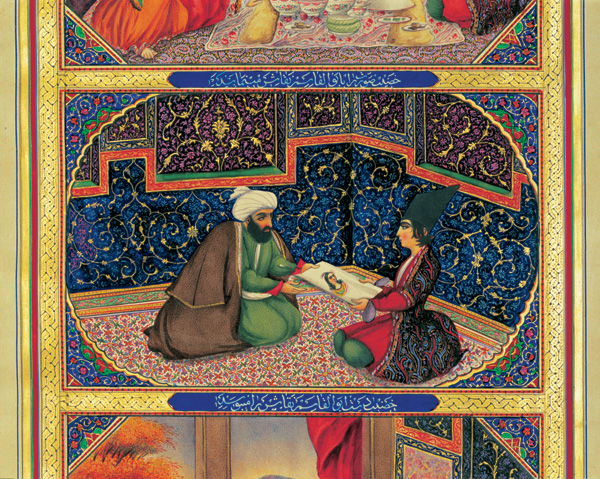 Illustration from "One Thousand and One Nights"